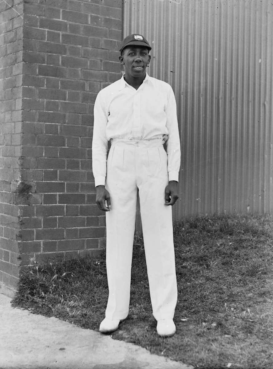 Learie Constantine with the West Indian cricket team in Australia during the 1930–31 season